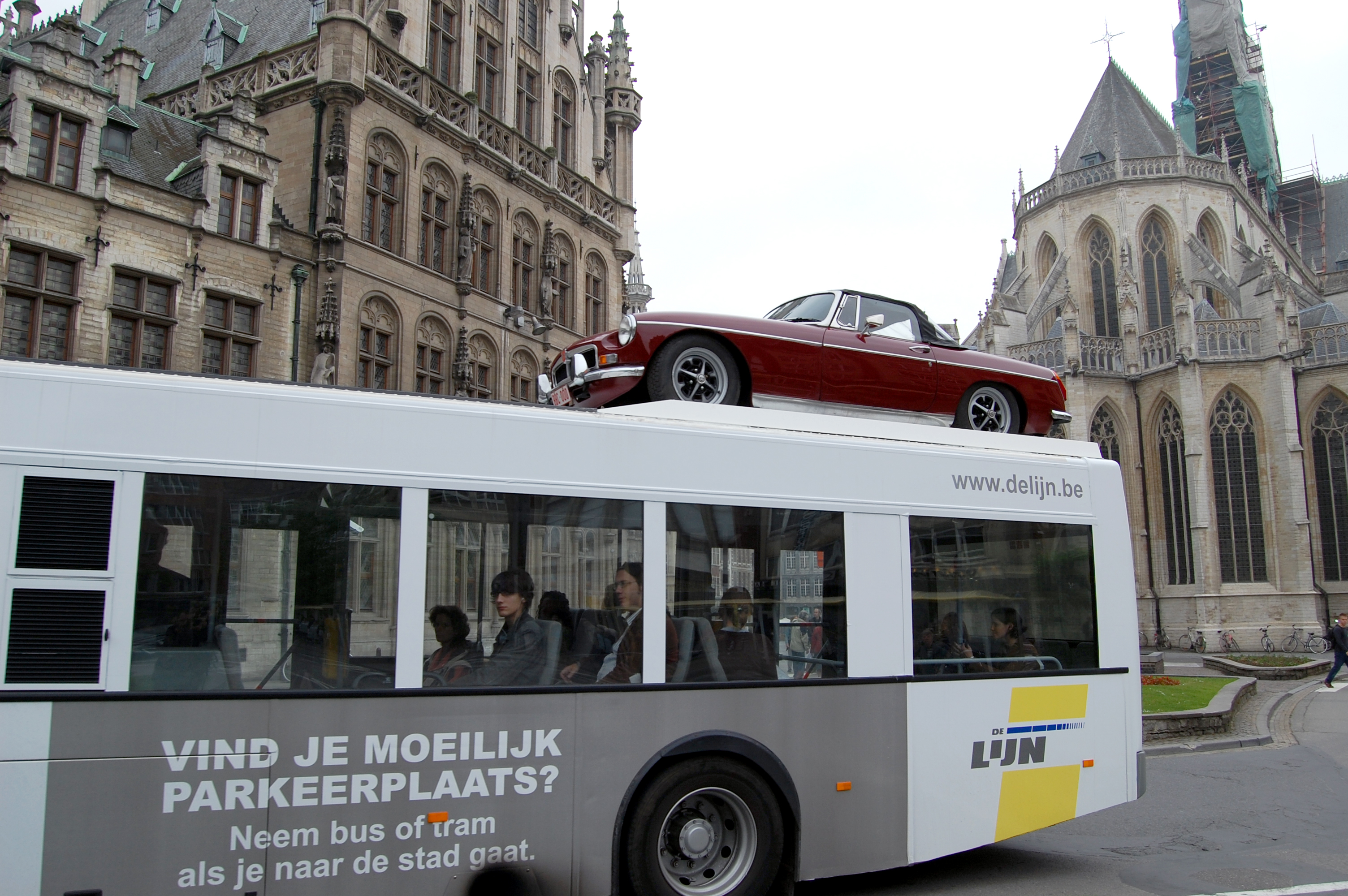 Bus company De Lijn in Belgium promotes public transport with a car on top of a bus. Slogan: Do you find it dificult to find a parking space? Take a bus or tram when you go to the city.